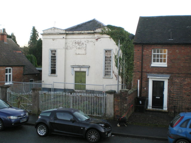 The old Magistrates' Court This building in Shrewsbury Road was built in 1843, and originally started life as a Zion Baptist Chapel. After slightly less than 80 years on and off, it became the local Magistrates' Court, but closed for business in the 1970s and has lain derelict ever since. There is currently (Dec 2008) a planning application in place for demolition and the erection of 1- & 2-bedroom flats on the site; this application is meeting some local resistance, but it's fairly clear from the external appearance at close quarters that the existing building is in a rather decrepit state. I thought it worthwhile recording the building on Geograph for posterity, as it may not last much longer.